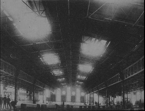 Bakhmetevsky Bus Garage (Leyland bus garage) a constructivist building designed in Moscow (1926-1927) by architect Konstantin Melnikov and engineer Vladimir Shukhov.